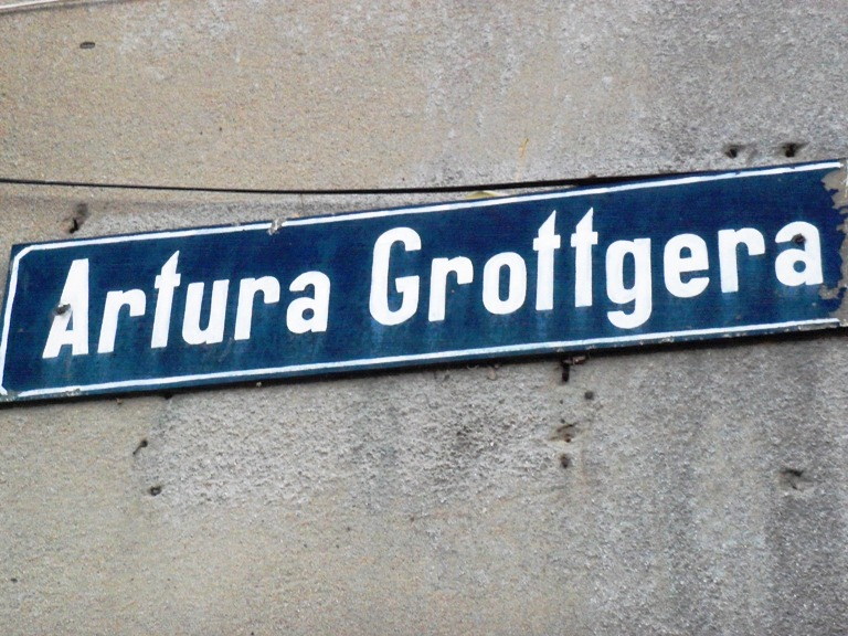 Grottgera Street in Katowice